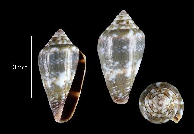 Conus santanaensis Afonso & Tenorio, 2014; family Conidae; Cape Verdes